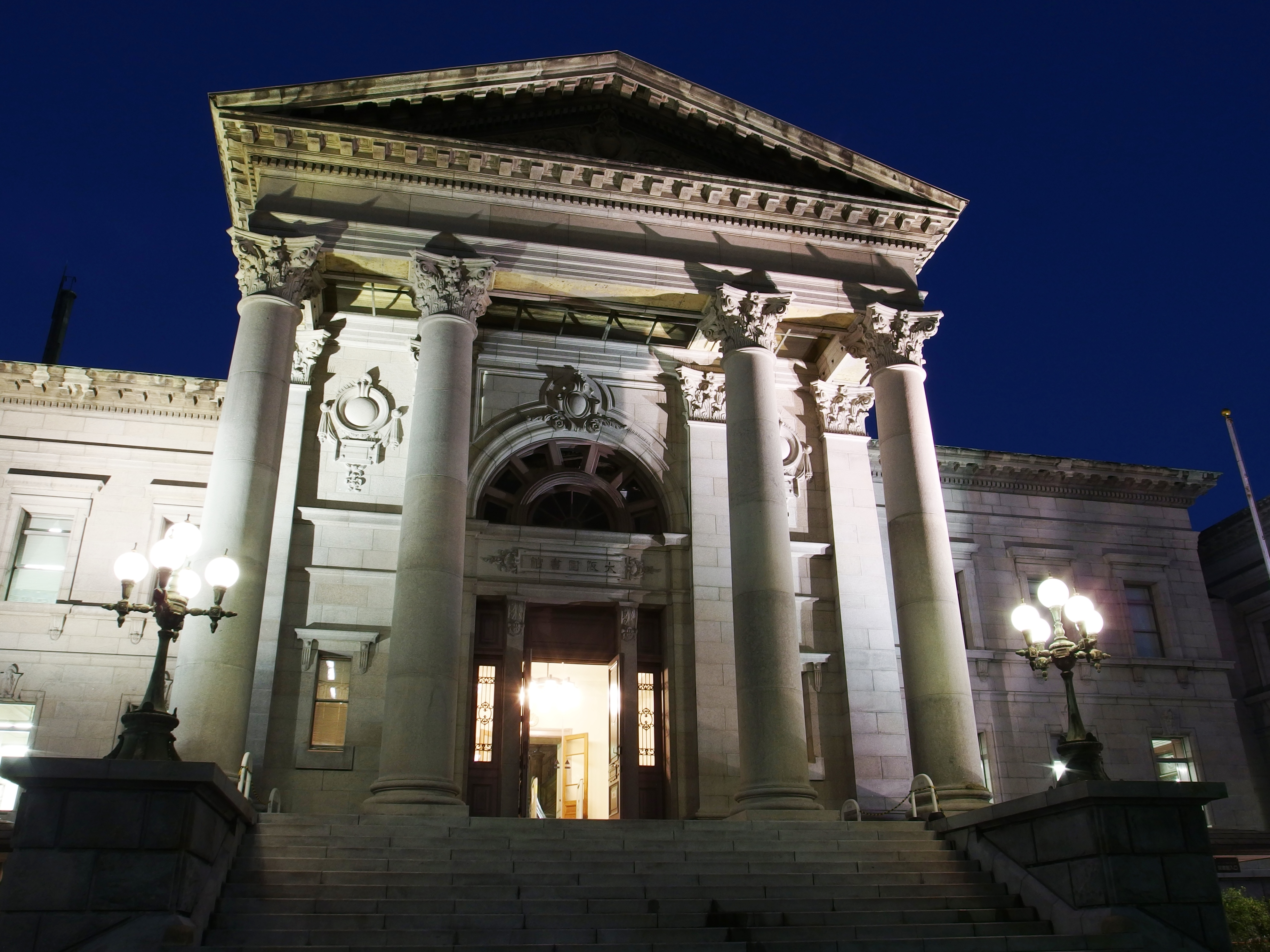 Osaka Prefectural Nakanoshima Library in Osaka, Osaka Prefecture, Japan